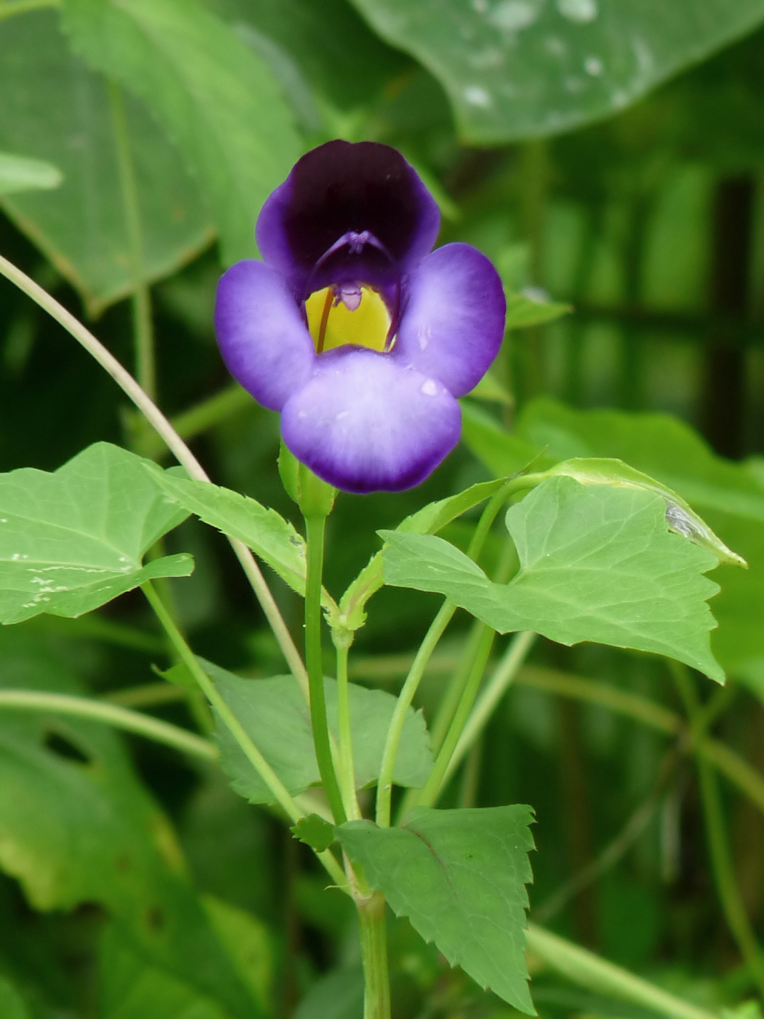 Torenia travancorica (Syn. Torenia asiatica Hook), Kaakapoo, is a creeping or scandent herbs; stems slender, 4-angled, with 10 cm long internodes. Leaves to 6 x 2 cm, ovate, acuminate, base rounded, thinly hirtus; nerves 5-7 pairs; petiole to 1 cm long. Flowers axillary; pedicels to 2.5 cm long, solitary, glabrous; calyx 2.2 cm long, tubular, narrowly winged, ciliolulate or glabrous, lobes acute; corolla 3.5 cm long, tube yellow, lobes deep blue, obtuse, spreading; anthers connate in pairs; appendages on the filaments 6 mm long, filiform. Capsule 2 cm long, glabrous; seeds pitted, pale brown. It is endemic to the south-west areas of India. Referred to as Kaakapoo in Hortus Malabaricus.